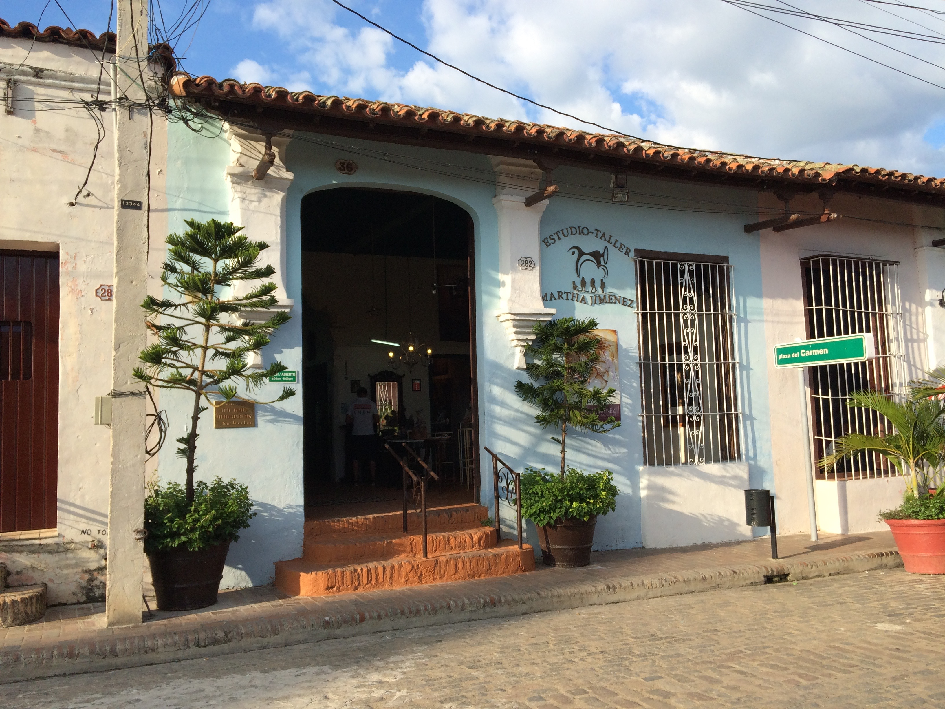 Front of the atelier of Cuban artist Martha Jimenez at the Plaza del Carmen in Camagüey, Cuba.